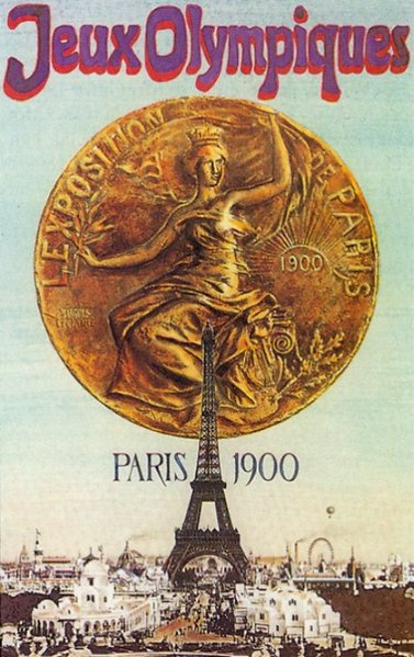 Poster for the 1900 Olympics in Paris.